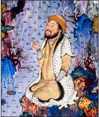 Painting of Siyamak in The Shahnama of Shah Tahmasp